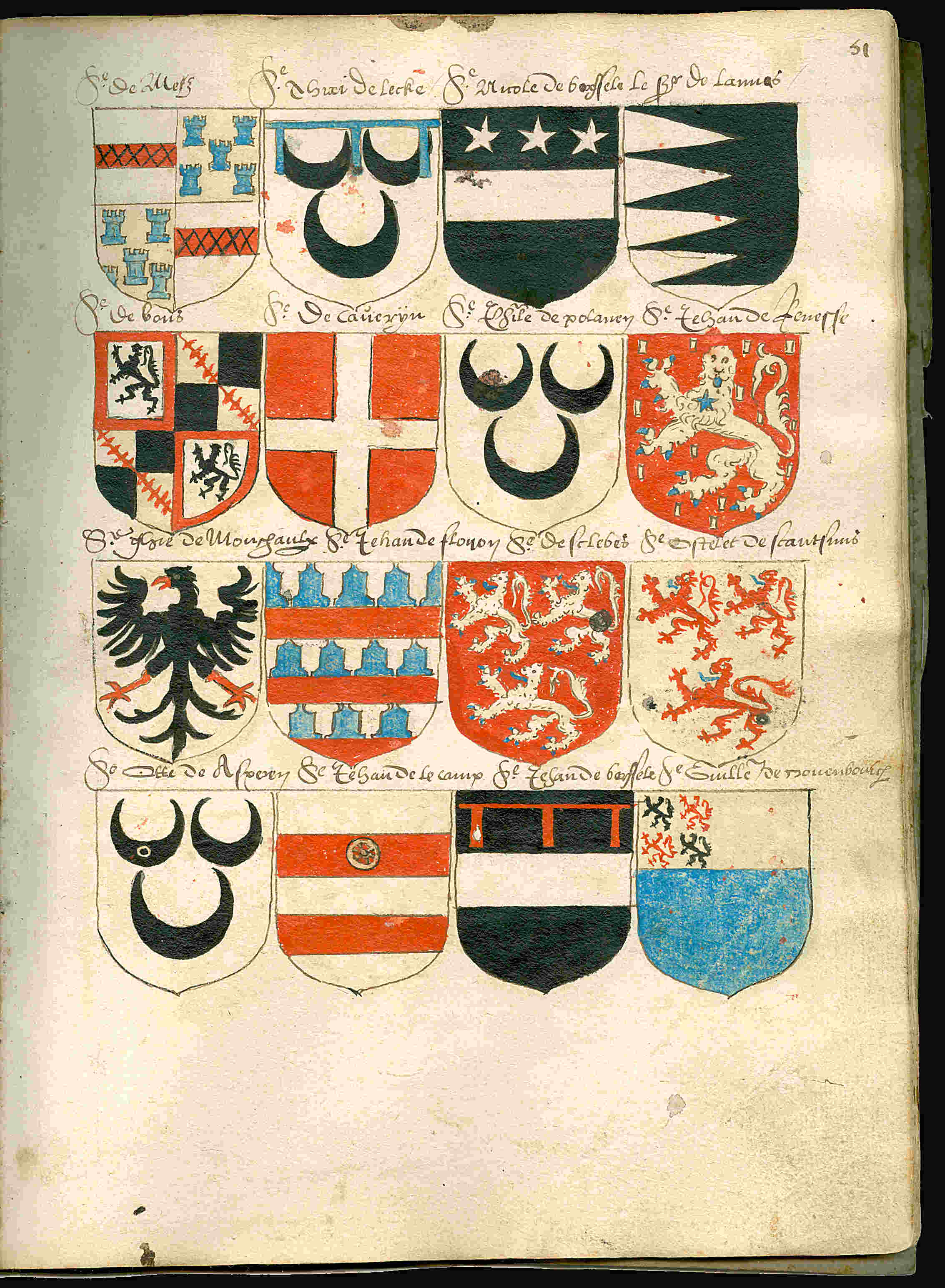 Page 51 from a copy of the Beyeren armorial / Wapenboek Beyeren from ca. 1600. The original Beyeren armorial from 1405 can be viewed at the website of the KB